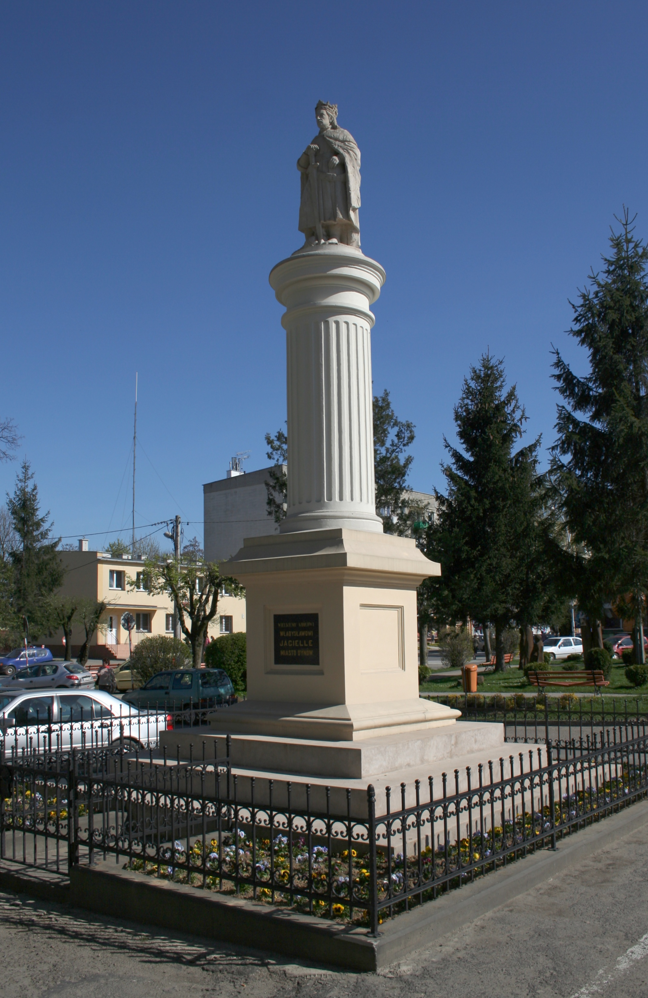 The monument of Wladislaus II in Dynów, Poland.